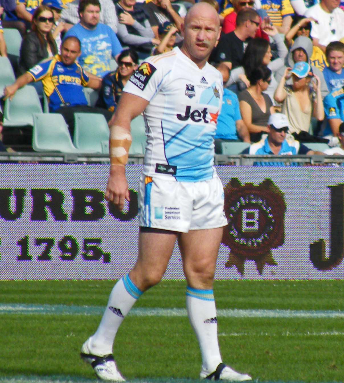 Luke Bailey